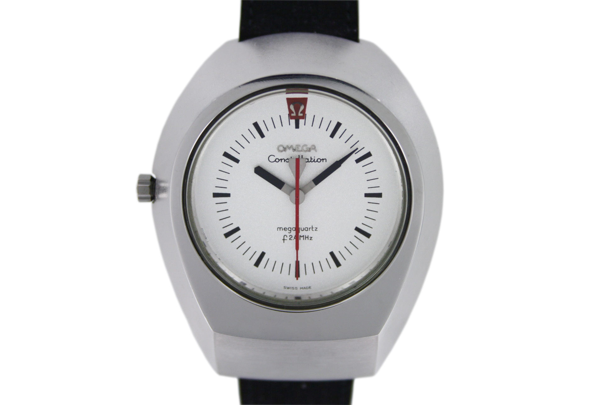 Omega Constellation Megaquartz F2.4 prototype, calibre 1500